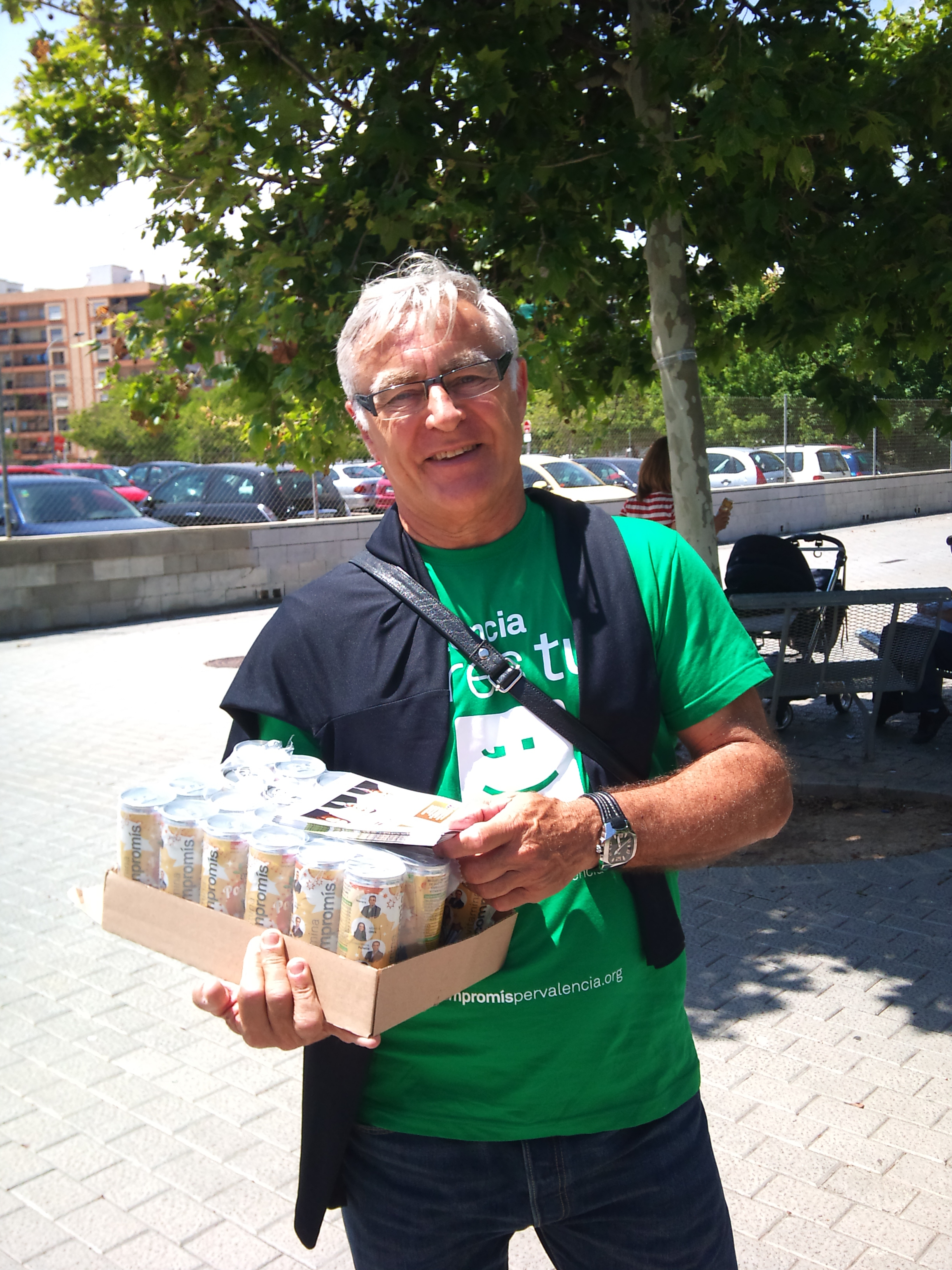 Runner-up for Valencia's City Council, Joan Ribó (Compromís: BLOC-Iniciativa-Verds) in a Campaign act in the University of Valencia, delivering "Vitamina Compromís", a promotional drink made of Orange Juice.